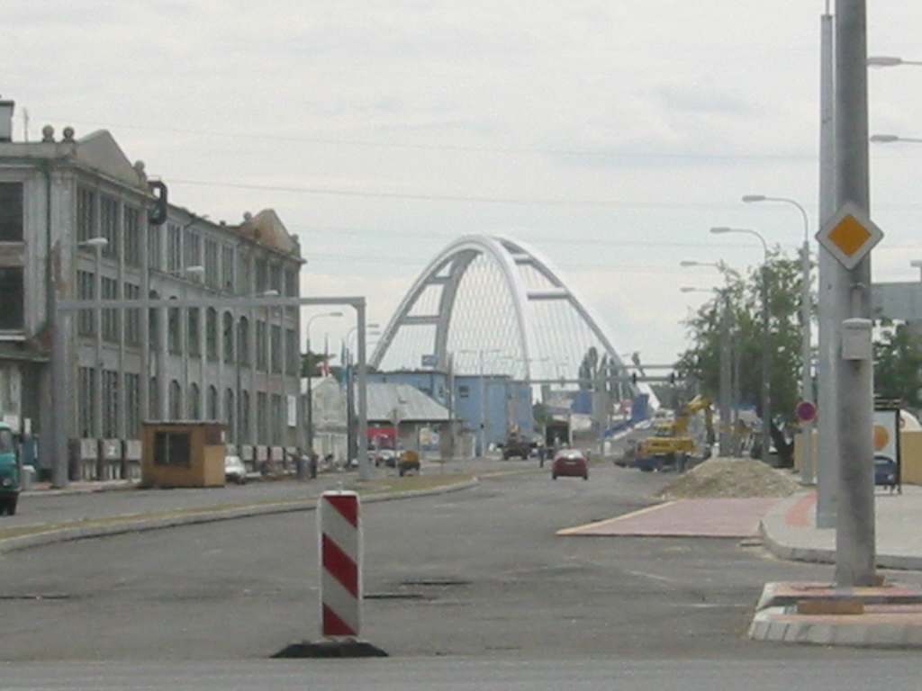 Gumon factory on the left, before later demolition